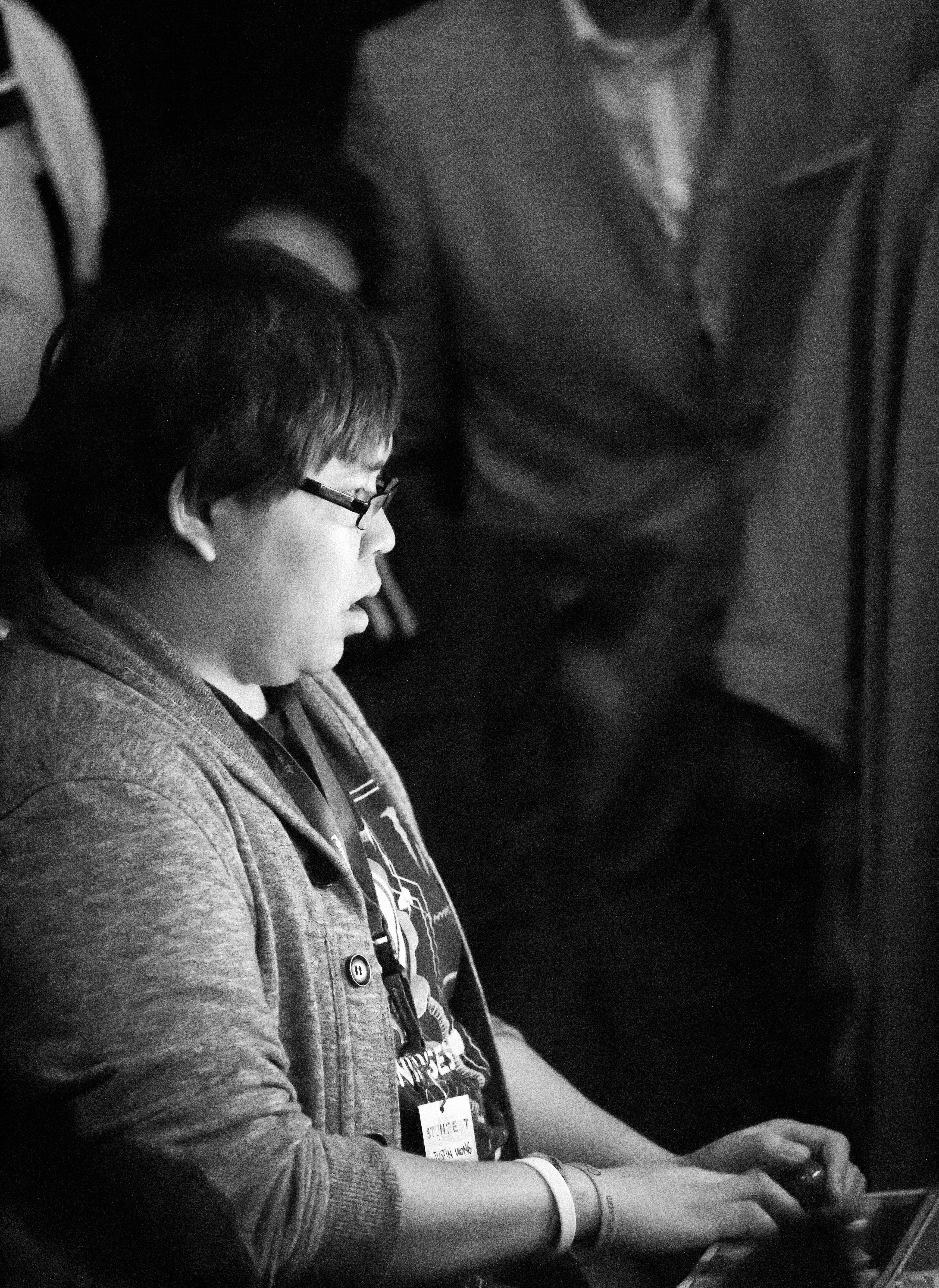 Justin Wong playing during Stunfest 2014.